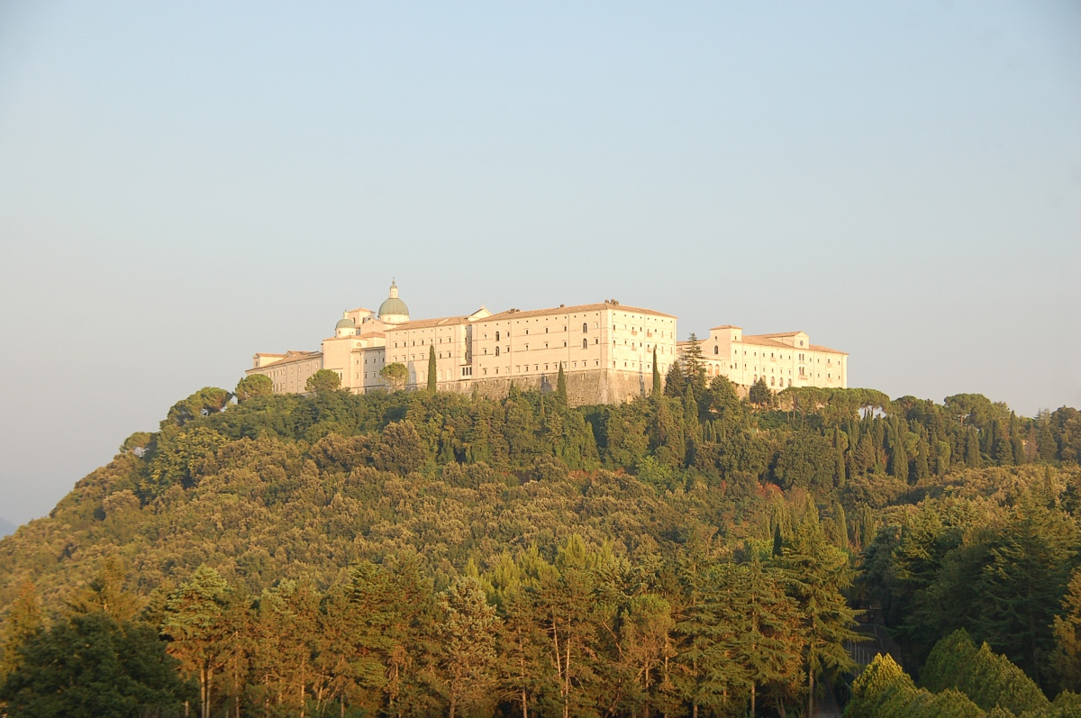 Monte Cassino Abbey 2010